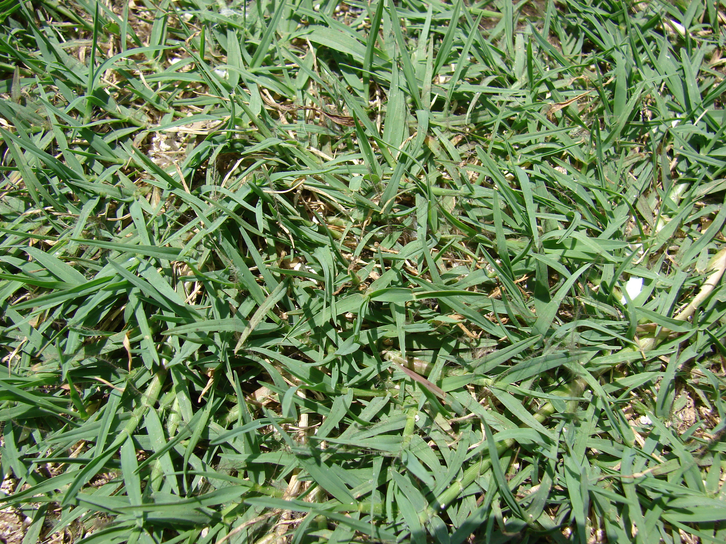 Cynodon dactylon (habit). Location: Midway Atoll, Charlie barracks Sand Island